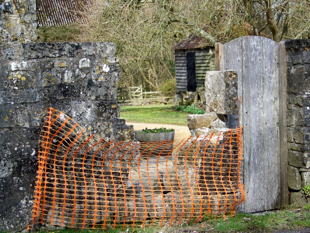 Stolen postbox, Fonthill Gifford. A disused George VI postbox 888240 was stolen overnight from this wall. I expect someone knows the value of scrap metal.